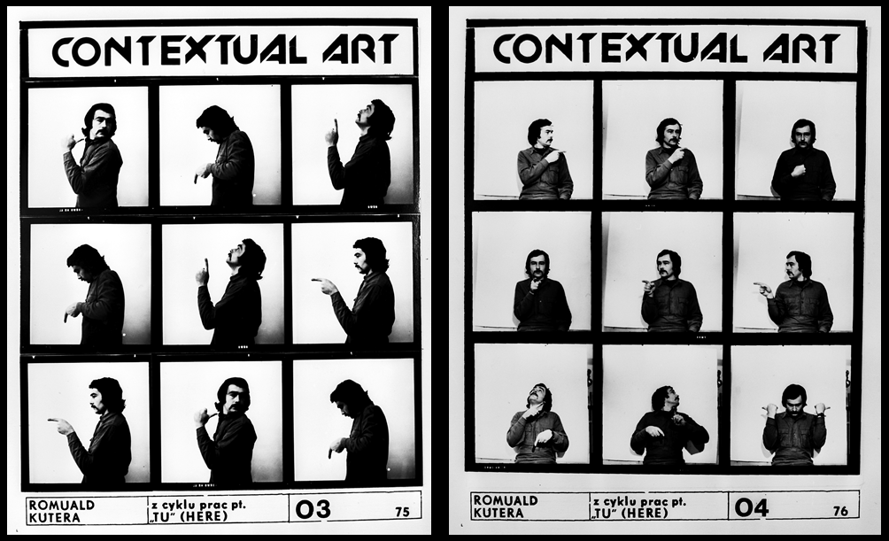 Romuald Kutera, Contextual Art, ongoing Cycle "TU"